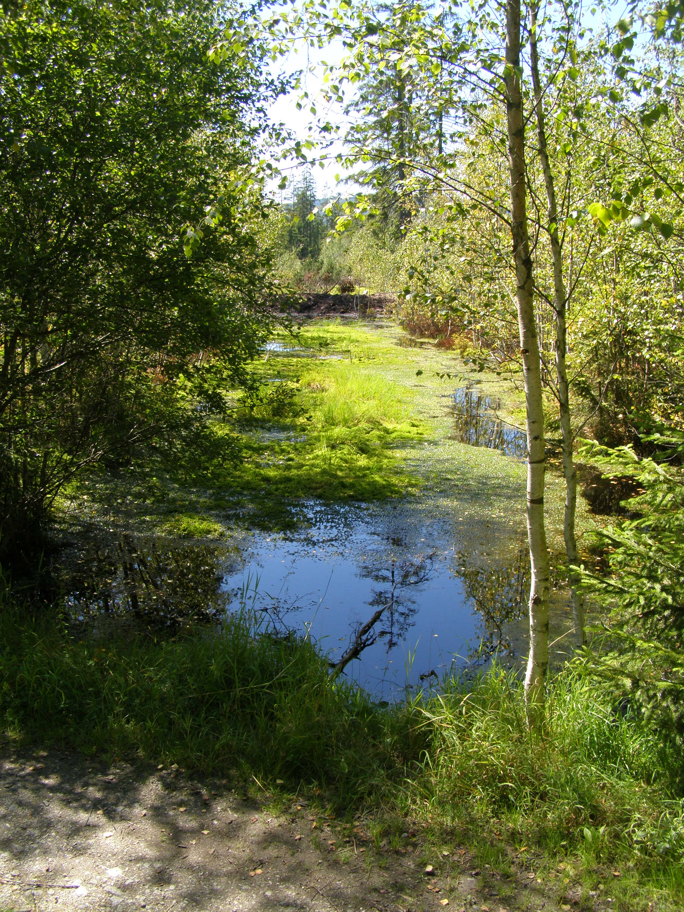 Finsterauer Filz is a peat bog, which covers an area of 4.2 hectares at an altitude of 1055 meters. At its deepest point reaches 3 meters. In the past the peat was gained here. Today the area is a nature reserve. Geographically falls moorland "Finsterauer Filz" already to Germany. The area is located in the district of Freyung-Grafenau beeline about 2 kilometers southwest of the Czech-German crossing border Bučina. The area is located about two kilometers as the crow flies north from German town Finsterau (near the German village Mauth) in the back of the Bavarian Forest National Park.